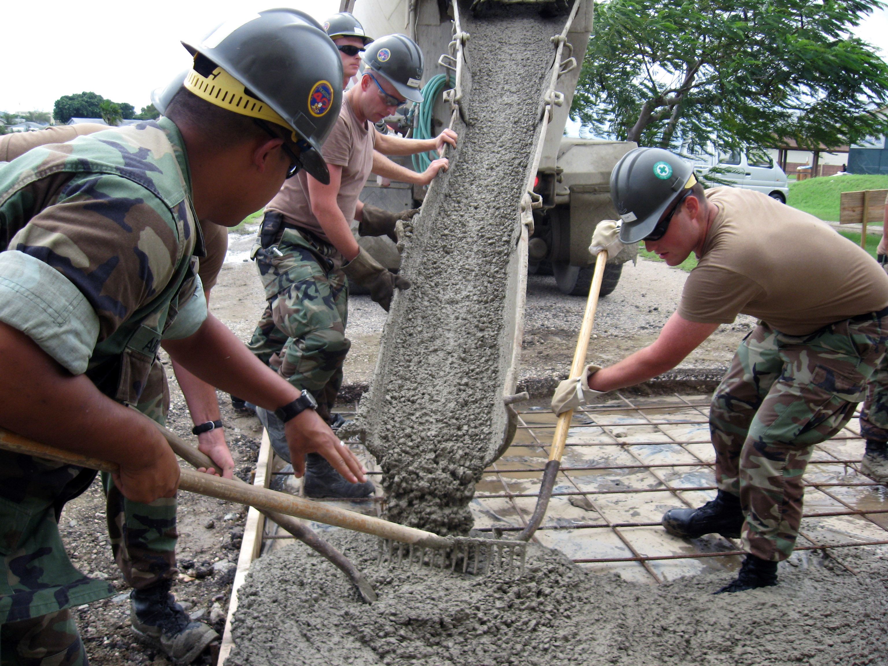 GUANTANAMO BAY, Cuba (Oct. 11, 2007) - Seabees assigned to the "Fighting Forty" of Naval Mobile Construction Battalion (NMCB) 40, repair a damaged section at the Leeward Airport. U.S. Navy photo by Seaman Kenneth Johnson (RELEASED)